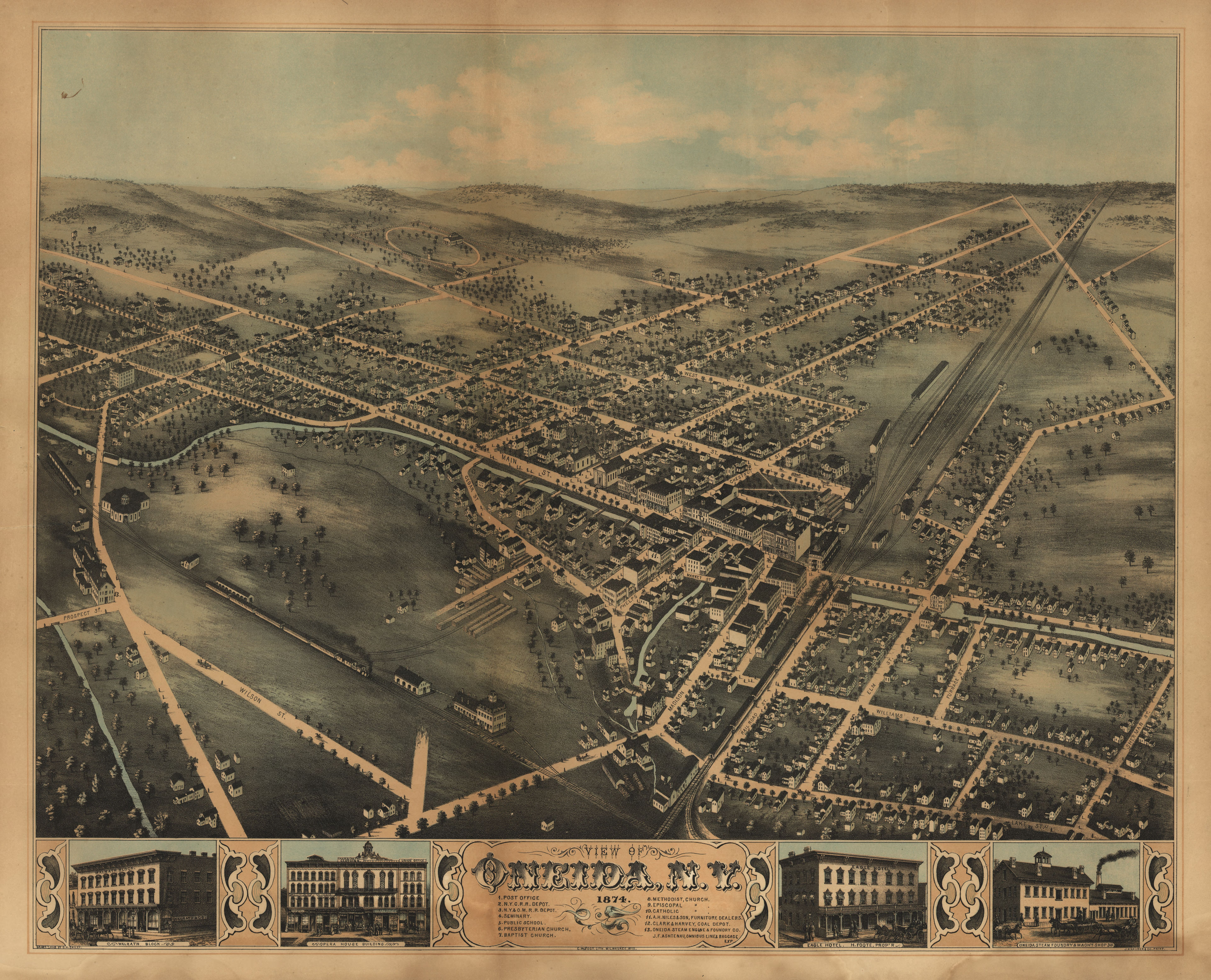 Aerial view to horizon. Relief shown by shading and landform drawings. Imperfect: Sun-darkened, water-stained/soiled on verso. Gift; Ed. and Joyce Miller, L.C. Madison Council; June 2004. Available also through the Library of Congress Web site as a raster image. Includes index to points of interest and col. ill. Acquisitions control no.: 2004-75 PM3